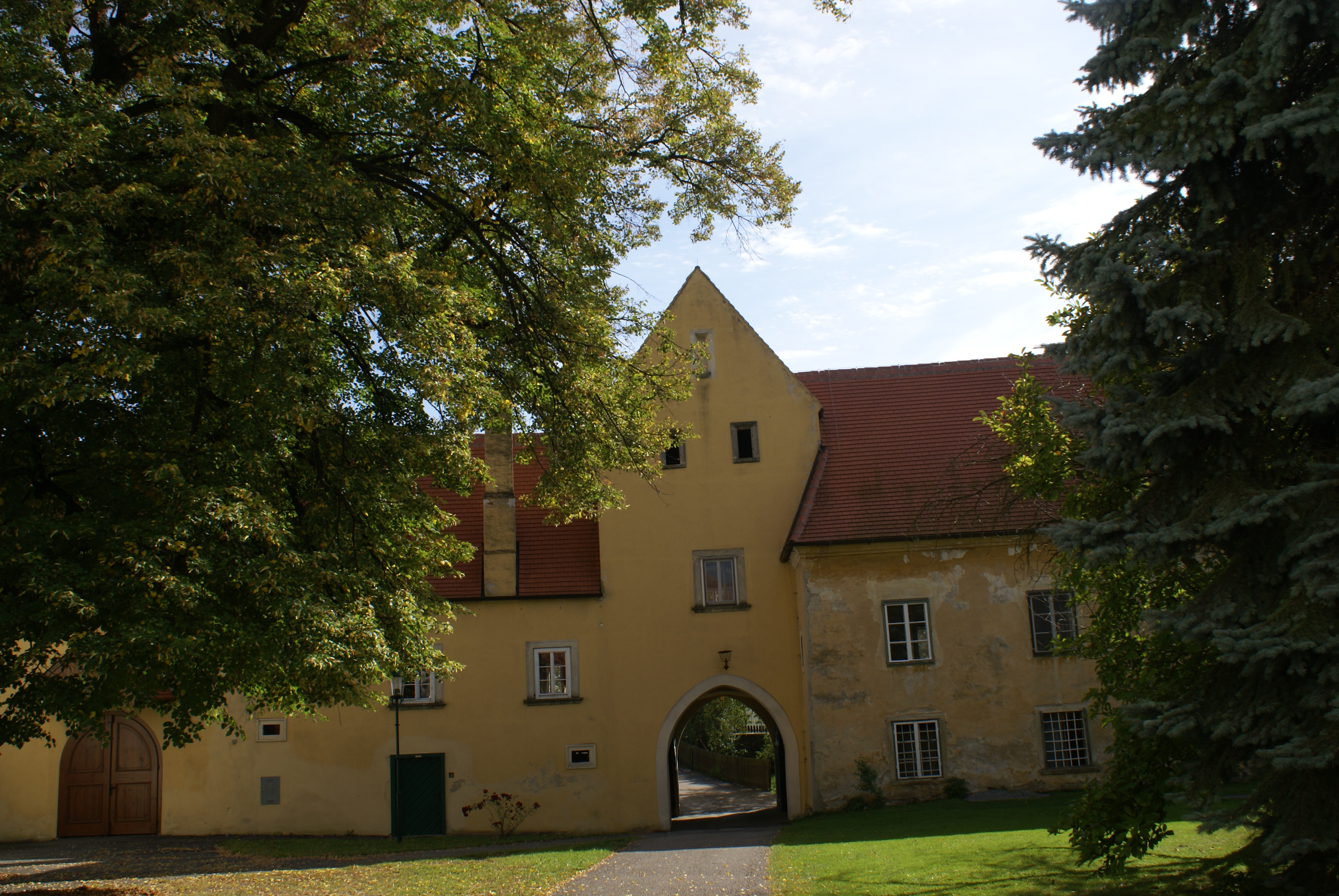 Stift Sankt Bernhard